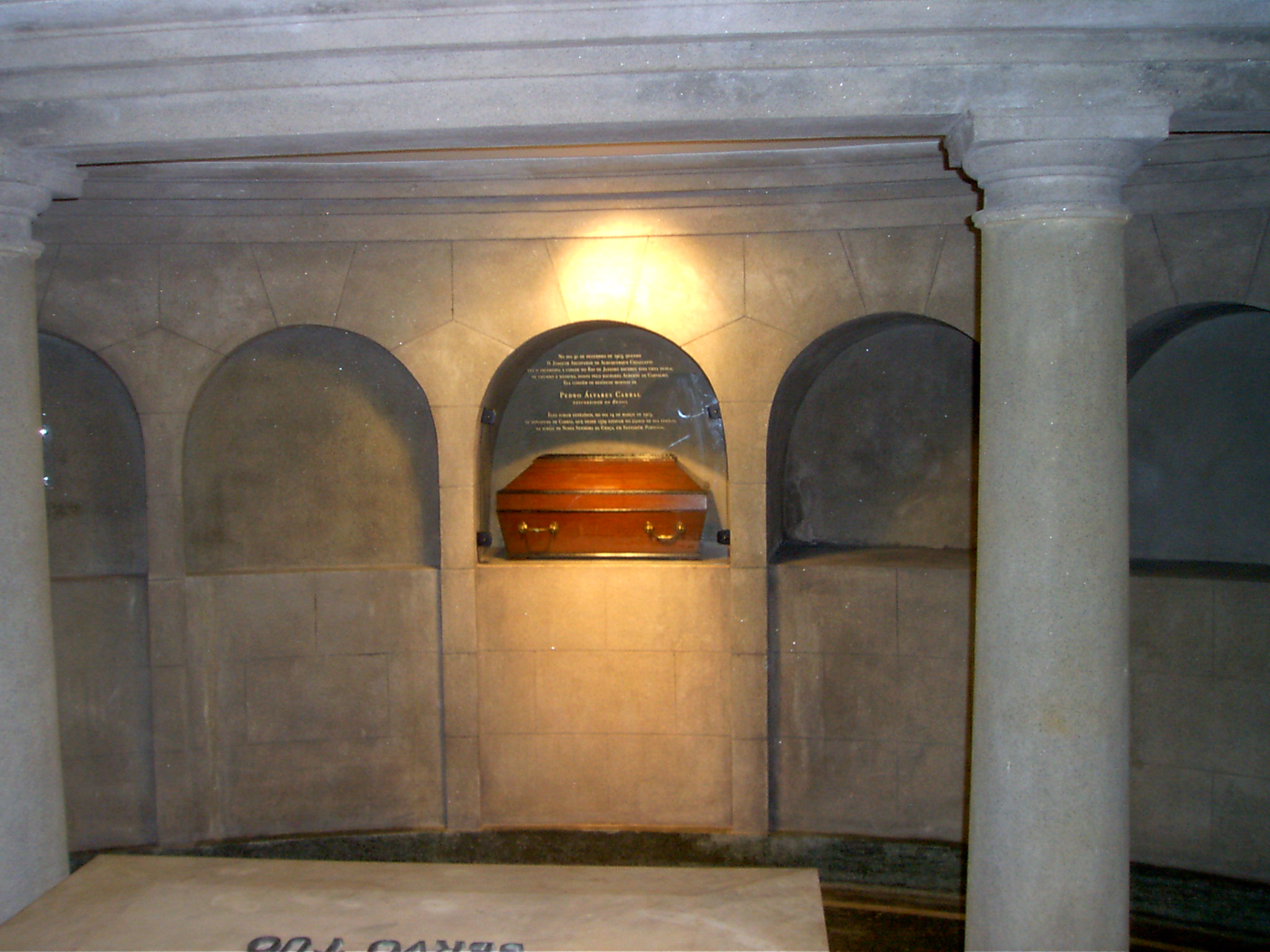 In 14 of March of 1903, the mortal remains of Peter Alvares Cabral had been taken to Rio de Janeiro, Brazil and placed in the cathedral. Nowadays, they can be visited at Antiga Sé ("the old cathedral") at Primeiro de Março Street.